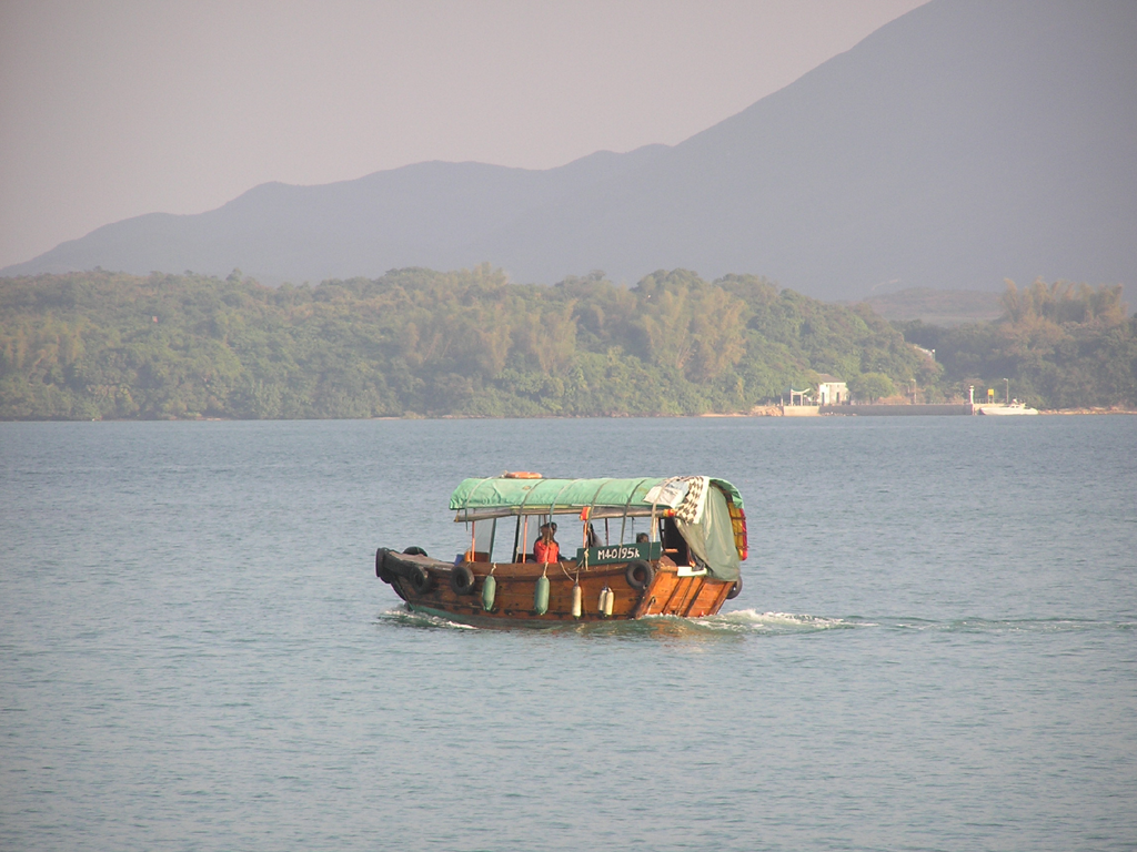 A boat carrying passengers to the out-lying islands off the Sai Kung Peninsula in Hong Kong